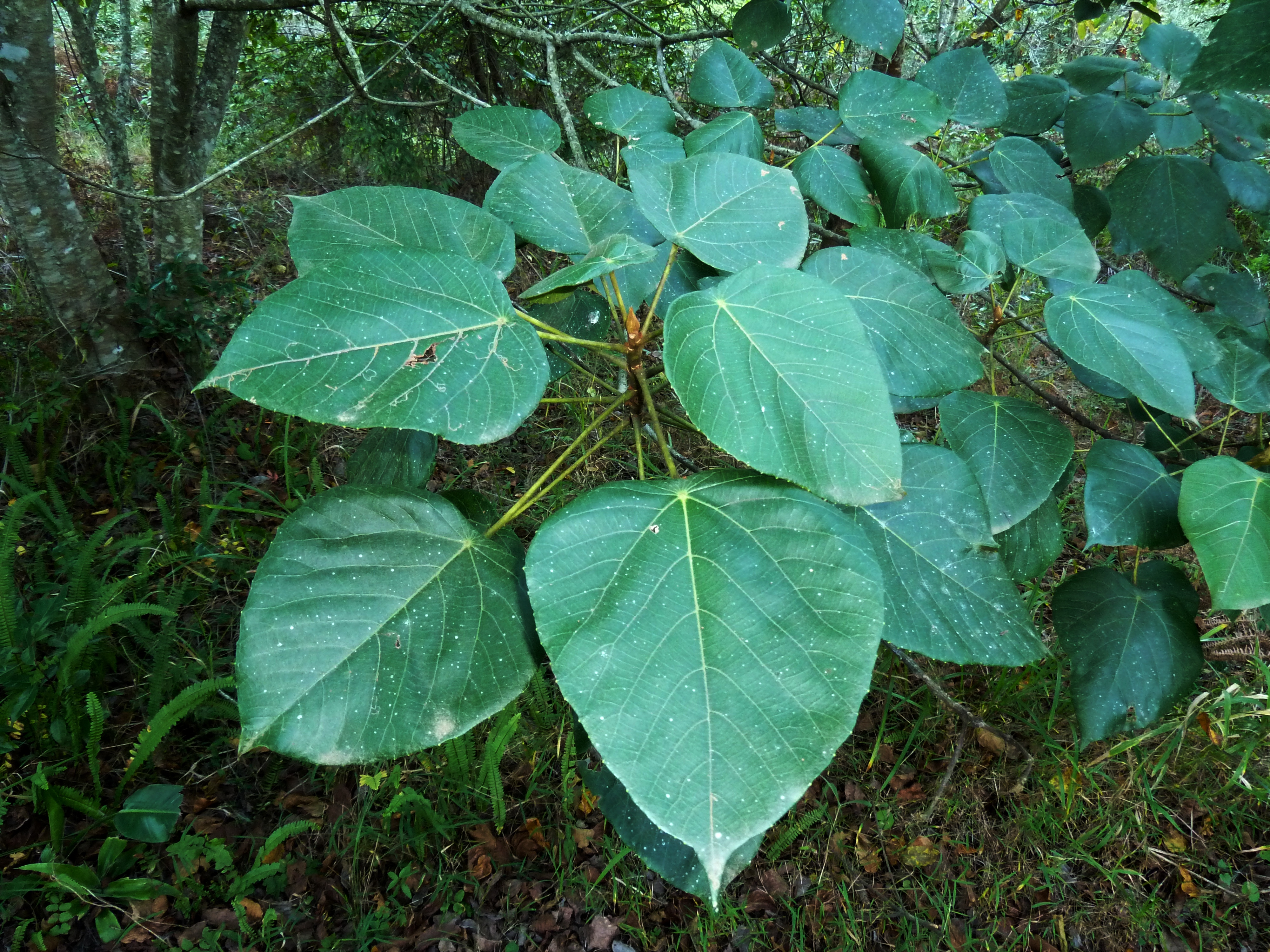 Foliage of a Wild poplar in Iphithi Nature Reserve, Gillitts